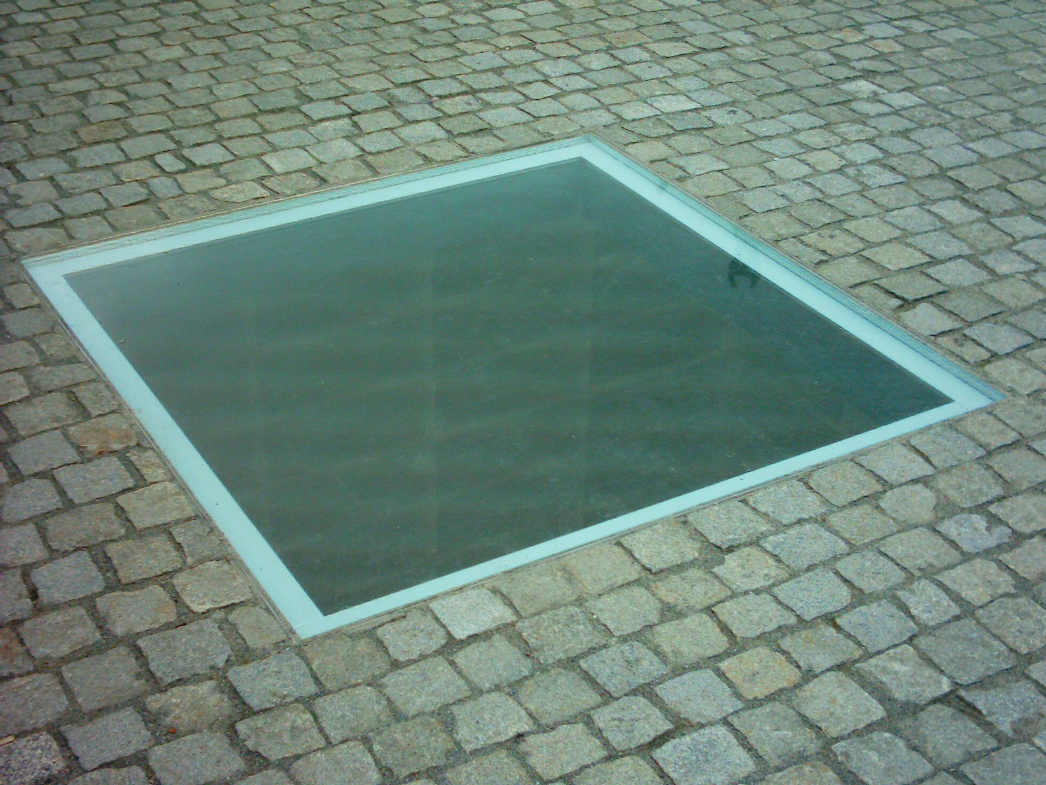 Memorial for the book burning at Bebelplatz in Berlin, Germany